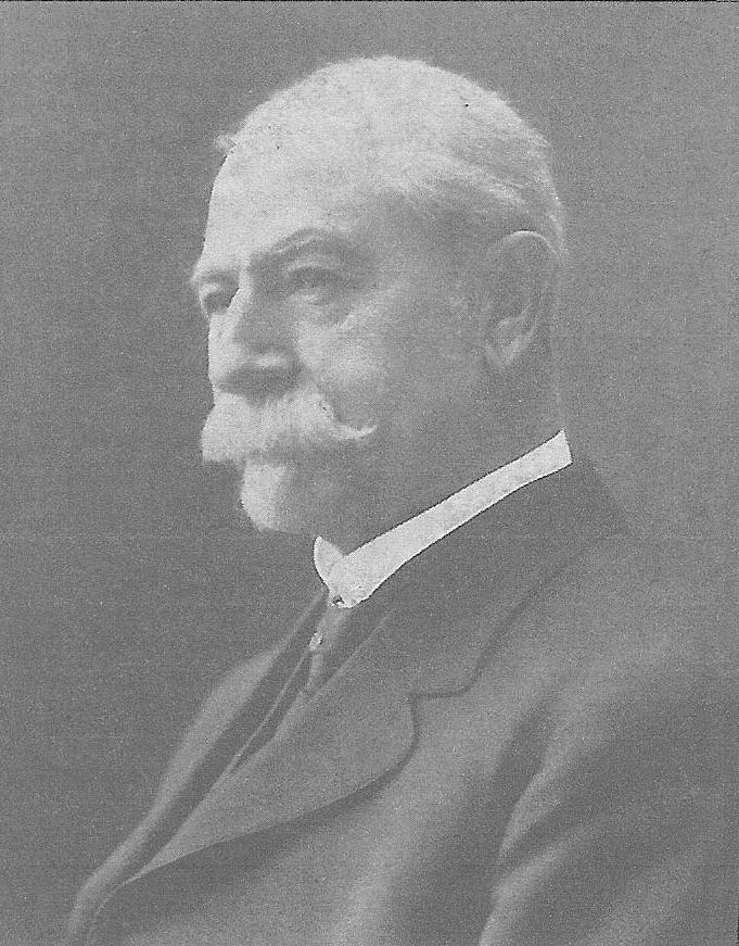 Portrait photograph of August Crull, before 1923